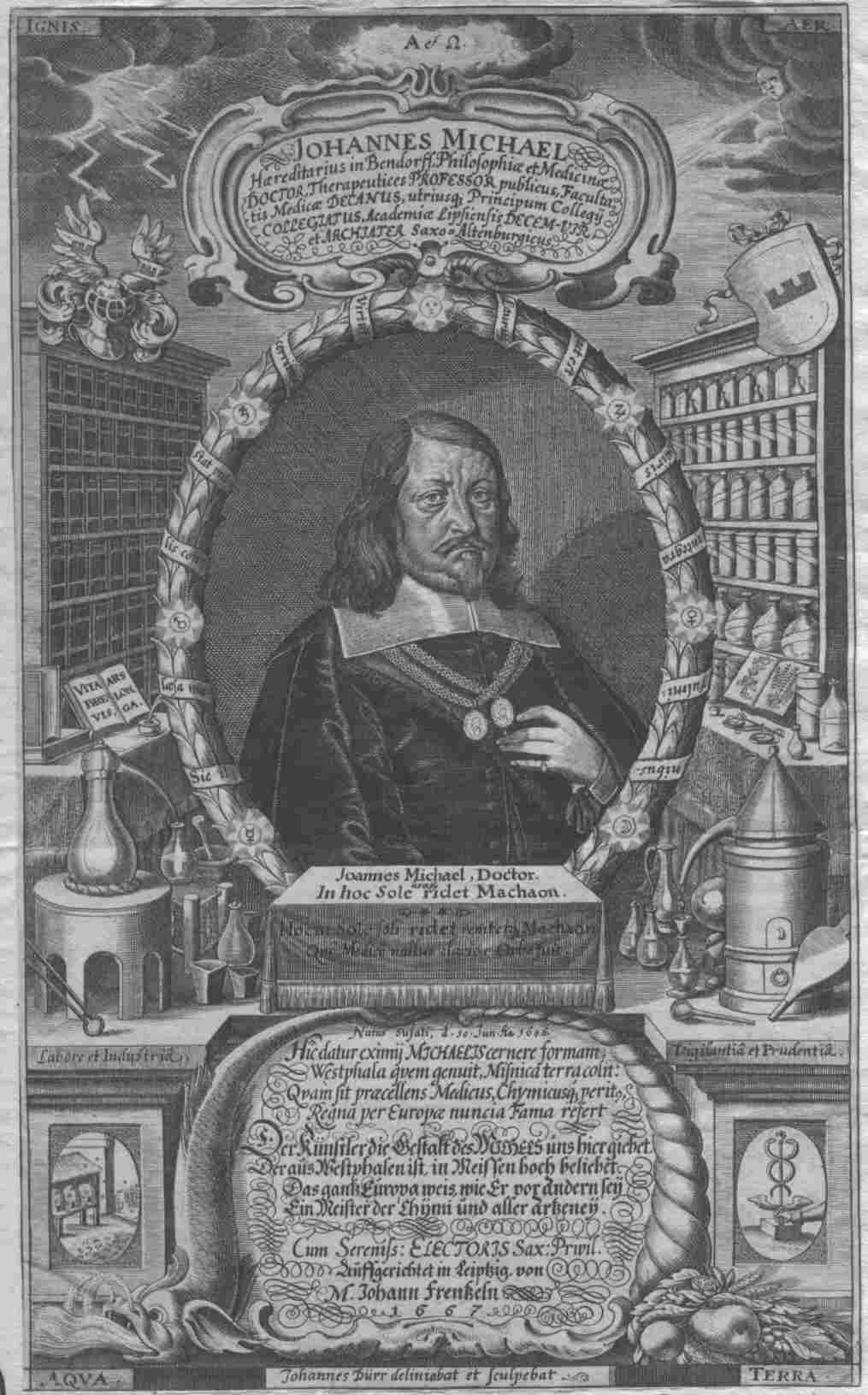 Portrait of Johannes Michaelis